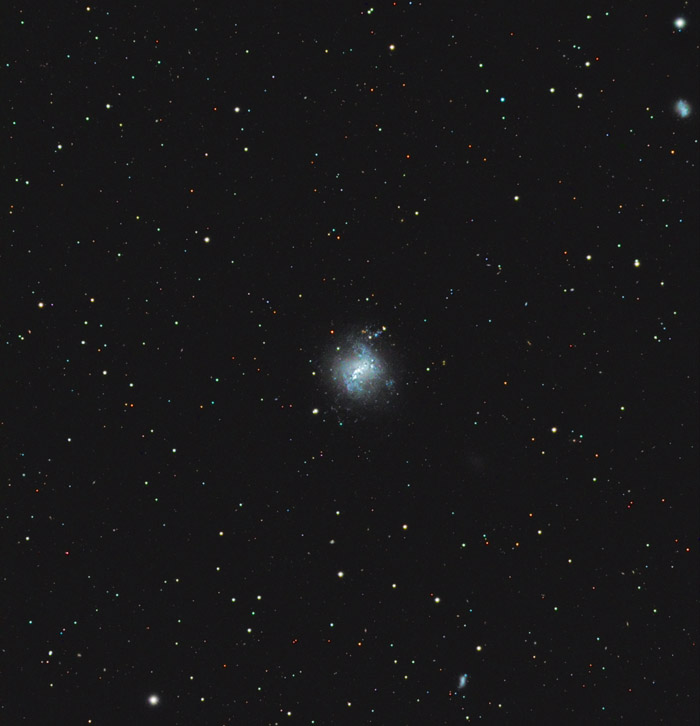 NGC 4214 imaged using amateur telescope (5" APO refractor).